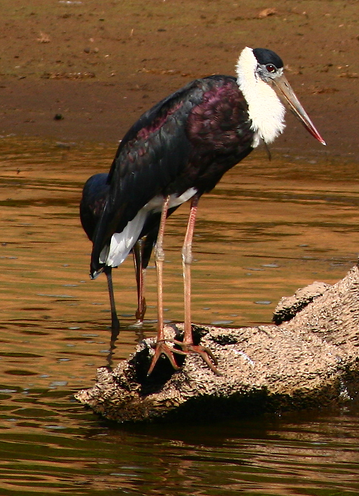 White_necked_stork_(Ciconia_episcopus)